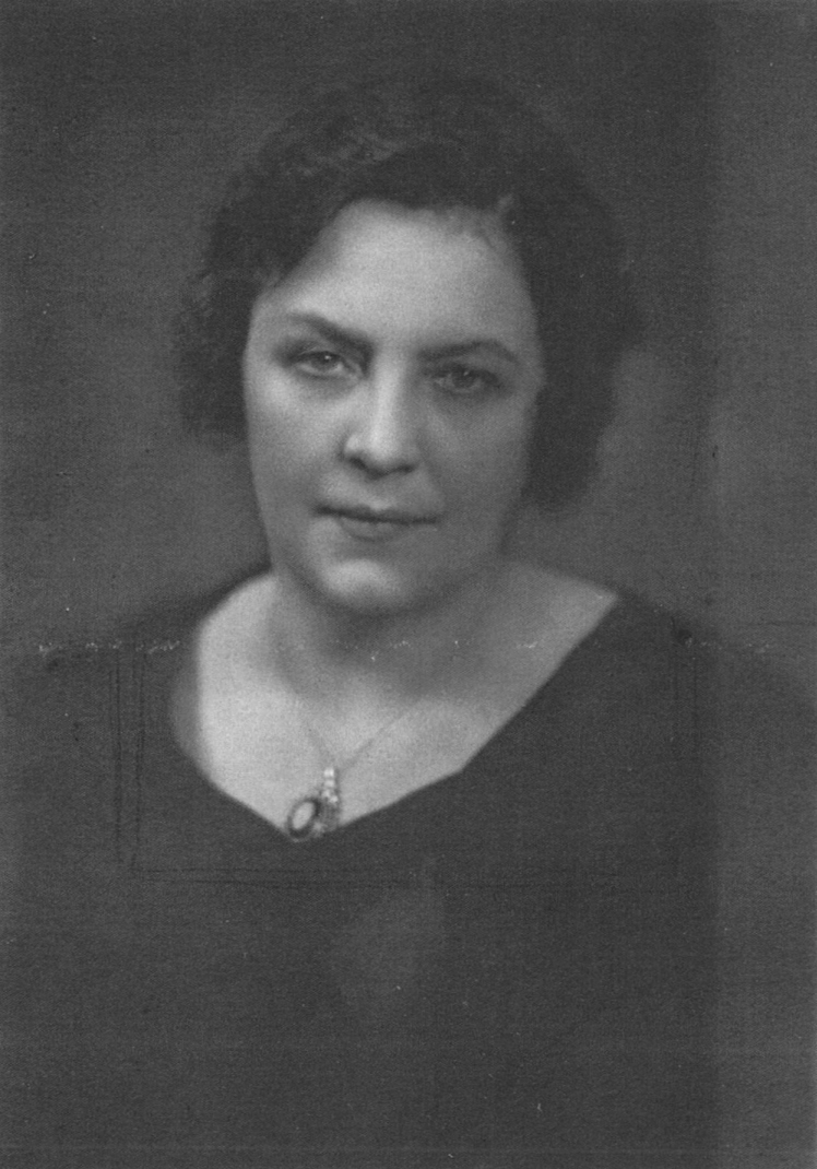 Photograph of the Finnish actress Lilli Tulenheimo (1880–1958).